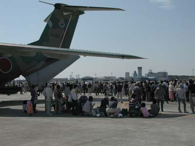 Subject: C-1 Wing of the JASDF displayed at JASDF Komaki AB Source: photo by Maryu, taken 2005/10/09